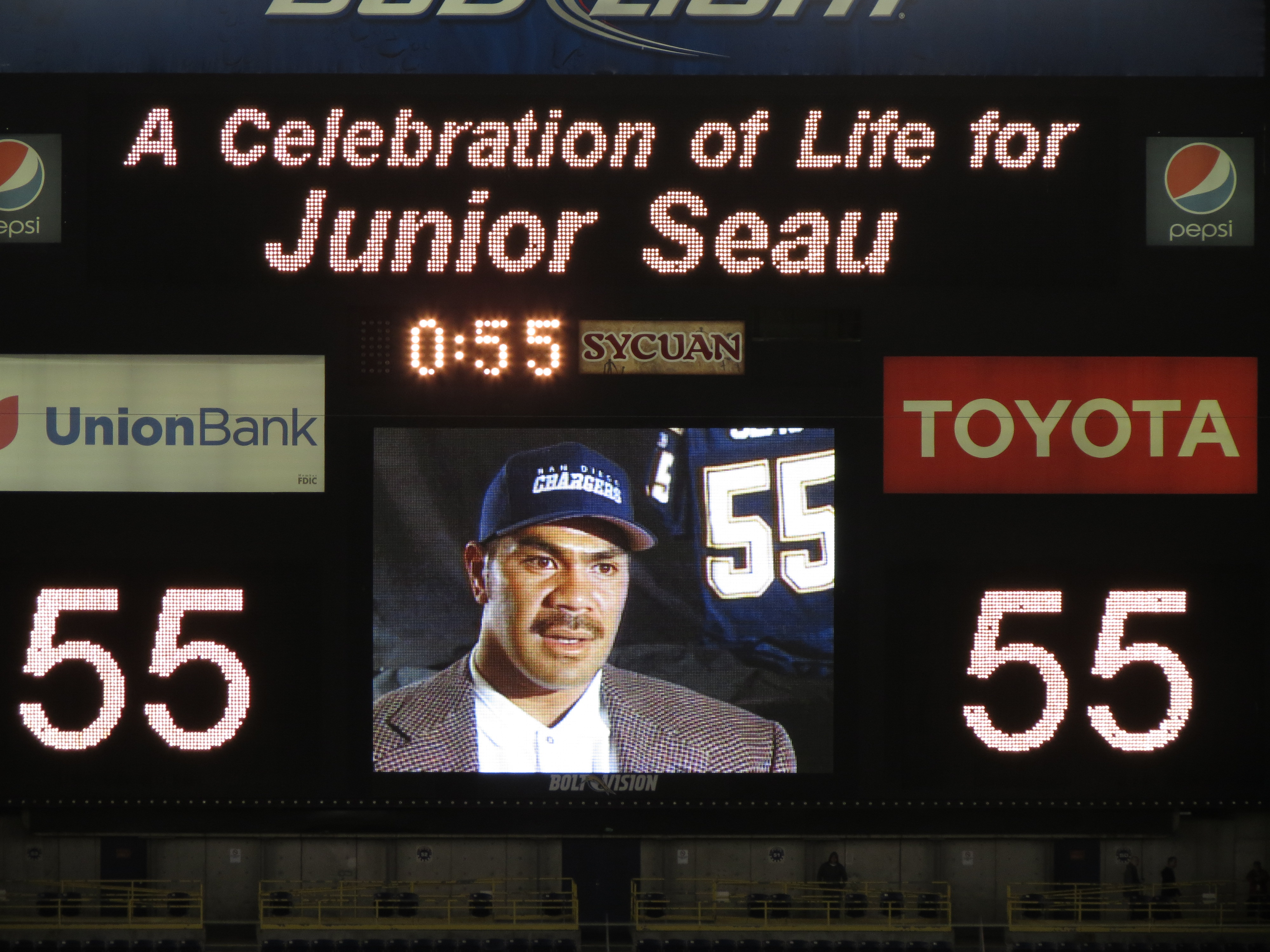 Celebration of Life for Junior Seau, May 11, 2012.